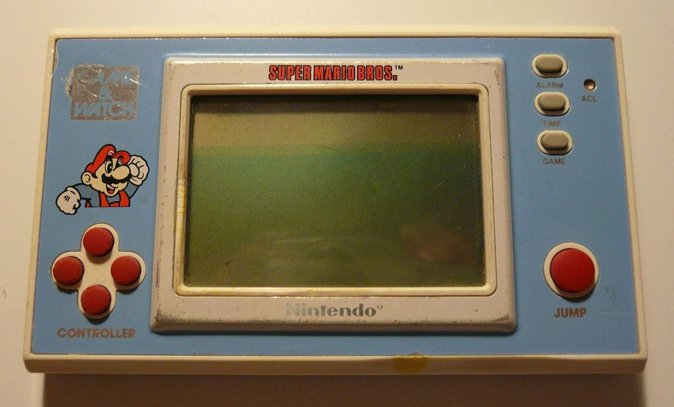 Super Mario Bros. - Game&Watch - Nintendo